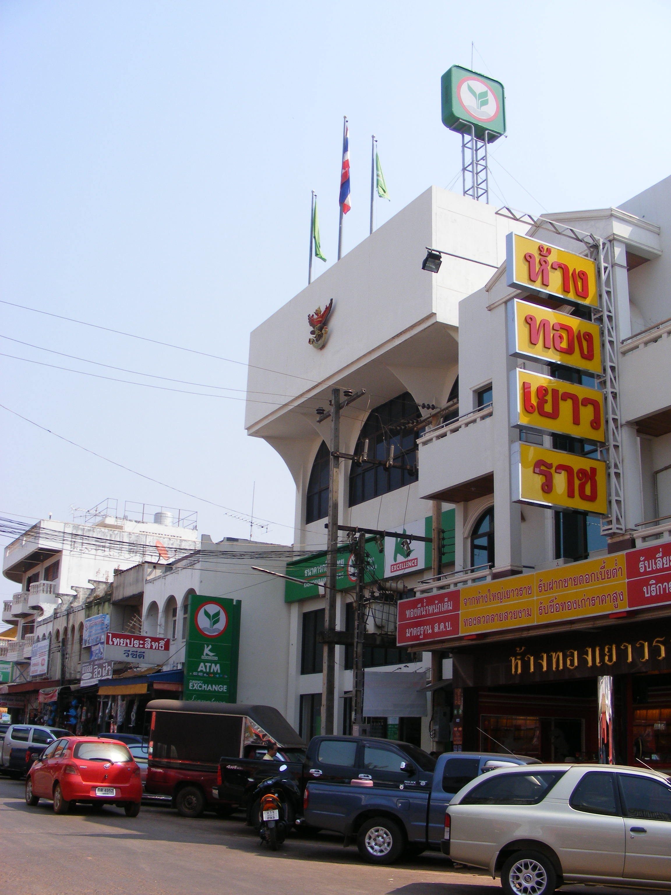 Kasikorn Bank, Ban Dung branch, Udon Thani province, Thailand.